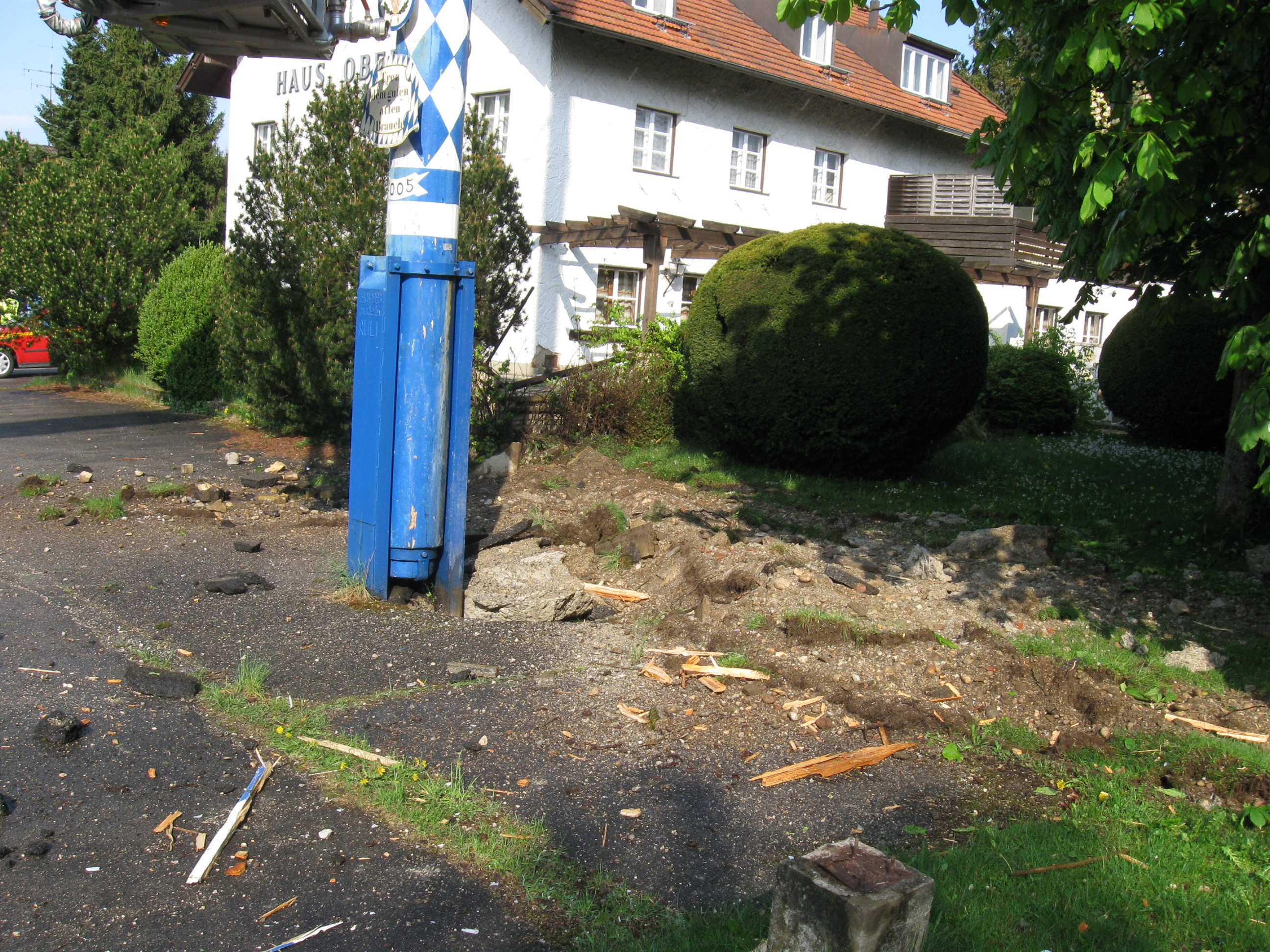 Maypole damaged by lightning. The concrete base of the pole bursted while the lightning found its way into the house (see corner of the house in the shadow of the pole) causing major damage by melting the wires. Additionally one of the water pipes leading to the house bursted and caused heavy damage to the sidewalk surface.